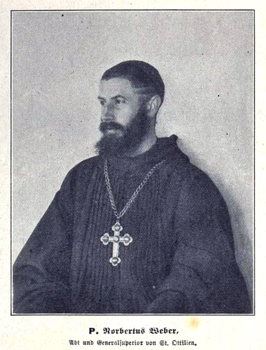 Norbert Weber OSB (1870-1956), First Archabbot of Archabbey and Congregation of Saint Ottilien (Bavaria)